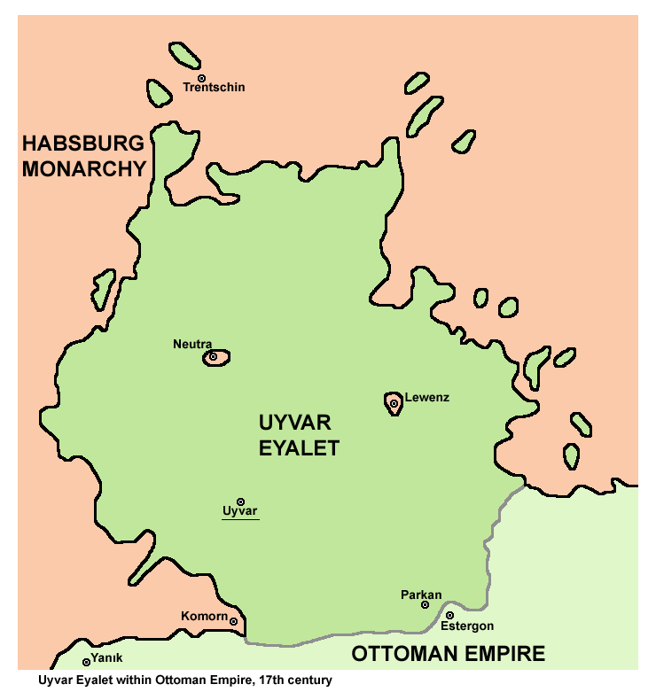 Uyvar Eyalet within Ottoman Empire, 17th century.